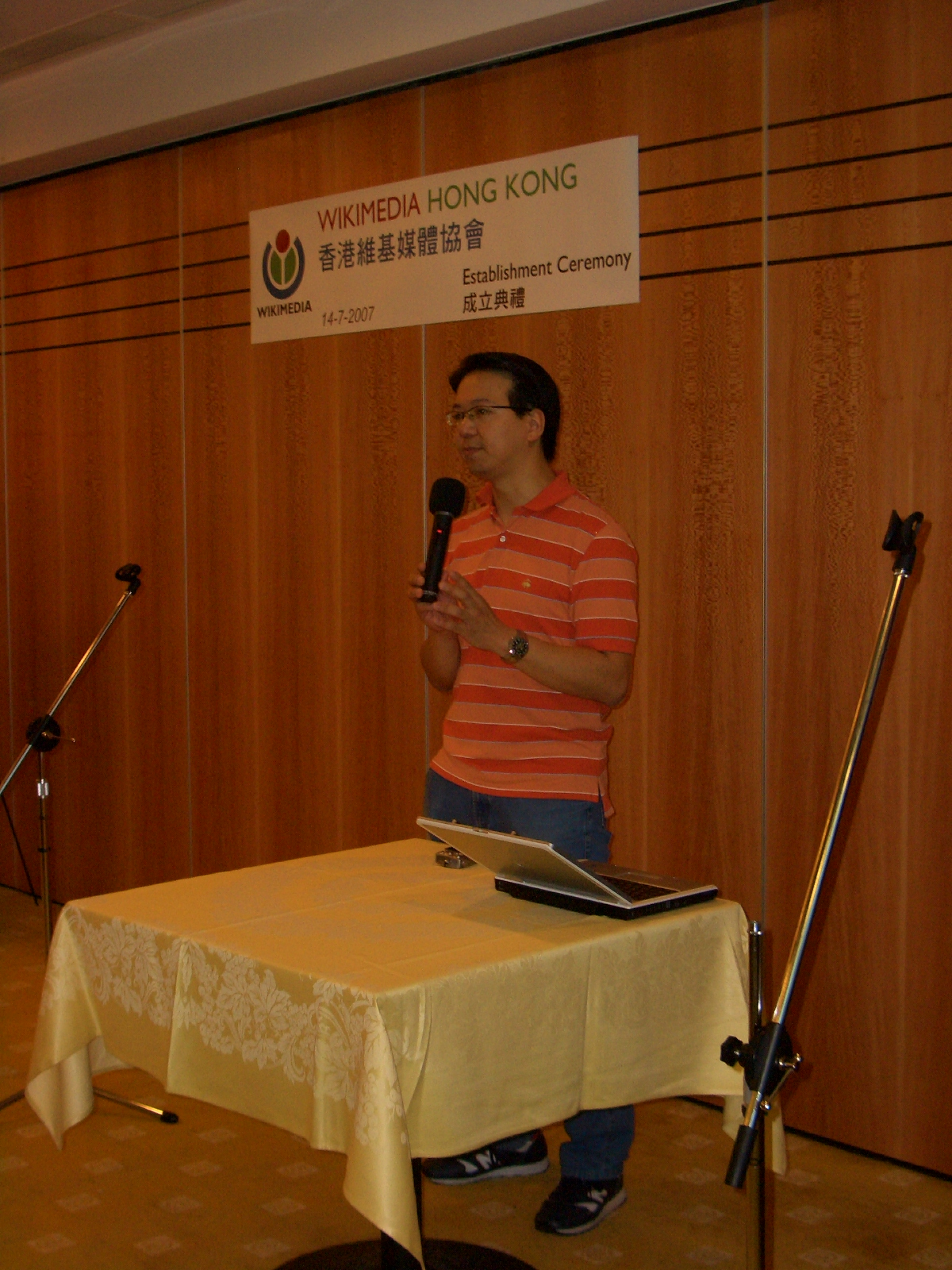 Charles Mok at the Wikimedia Hong Kong Establishment Ceremony